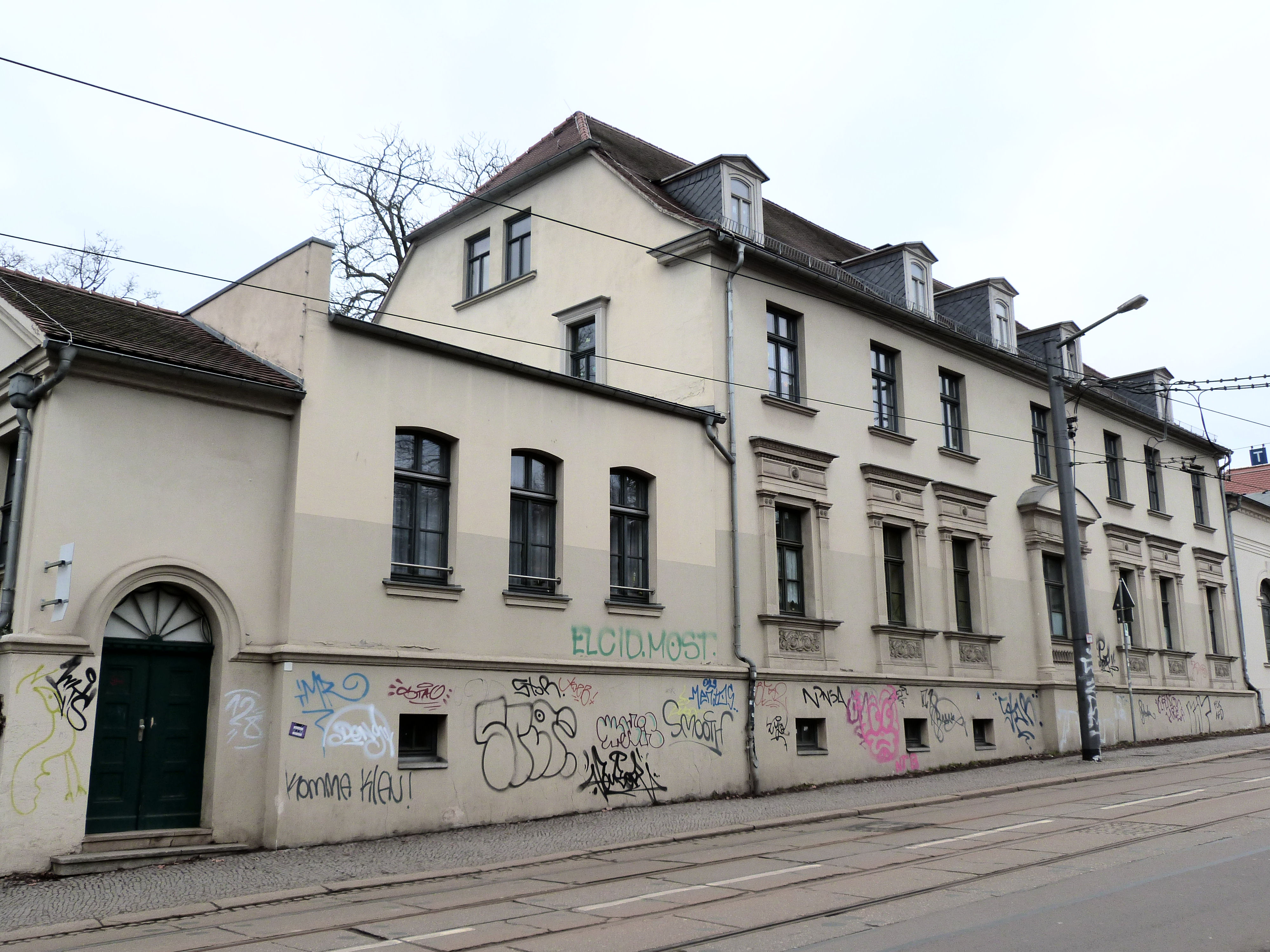 Bethcke-Lehmann house, Burgstrasse No. 45b, Halle (Saale)